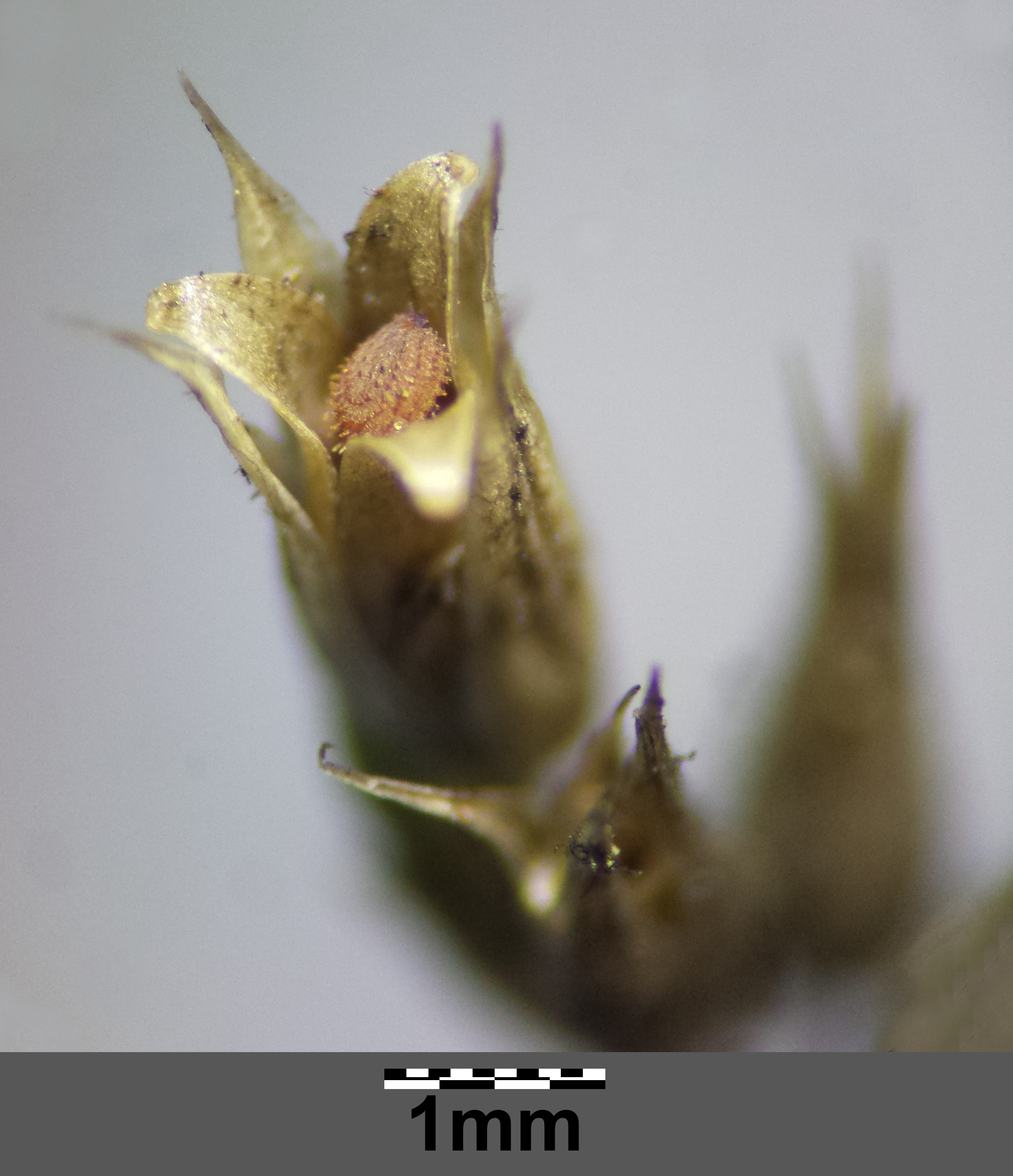 Open fruit with seeds Taxonym: Minuartia rubra ss Fischer et al. EfÖLS 2008 ISBN 978-3-85474-187-9 Location: Steinbacher Heide, Leiser Berge, district Korneuburg, Lower Austria - ca. 450 m a.s.l. (leg.: 2016-02-27) Habitat: rocks of limestone